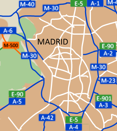 map M30